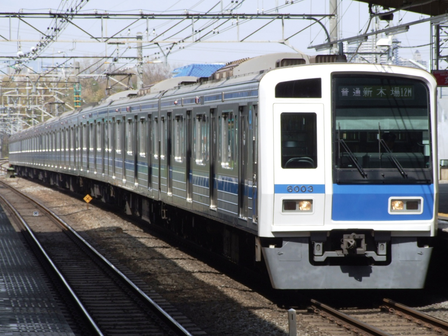 Series 6000 -Renewal Train-,Seibu Railway,Japan